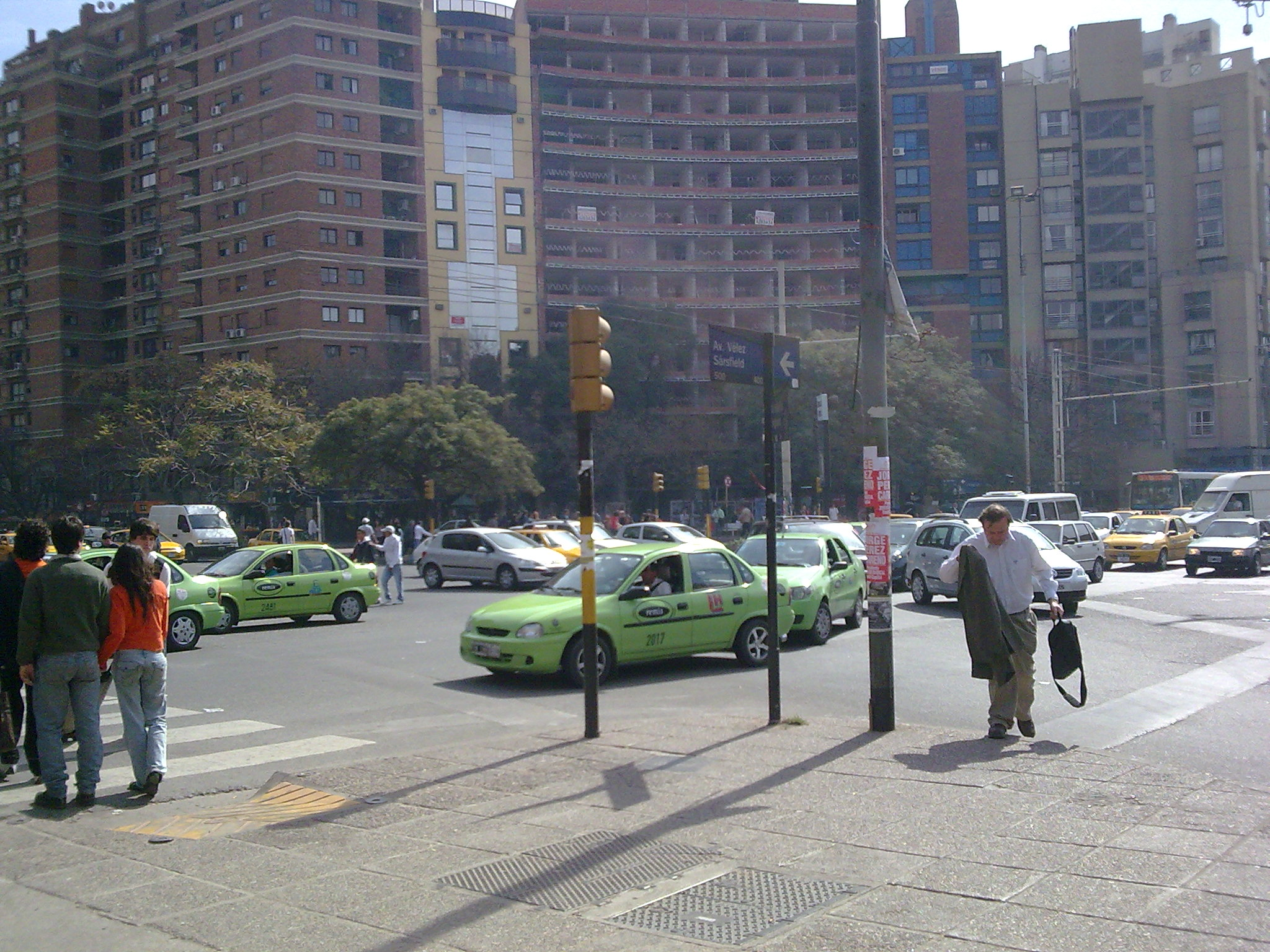 Traffic jam due to a union protest. Cordoba, Argentina.